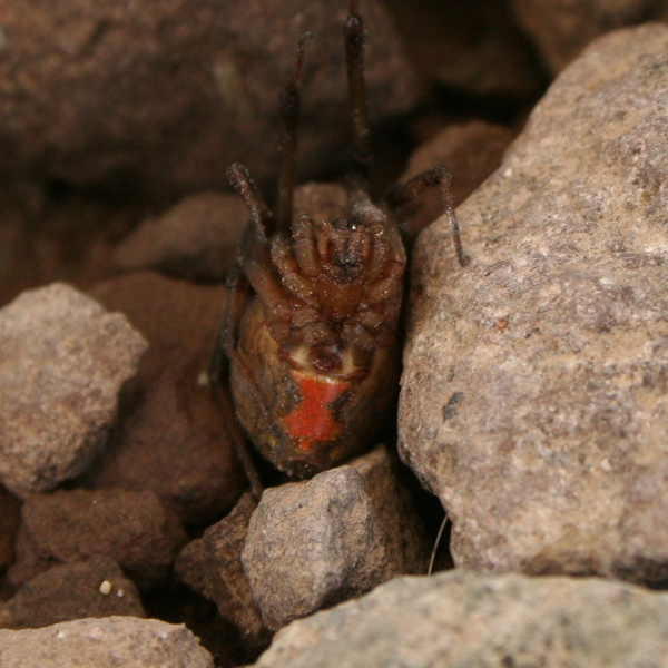 Ventral abdomen of the Brown Widow spider showing the characteristic orange hour glass shape on St. Kitts.